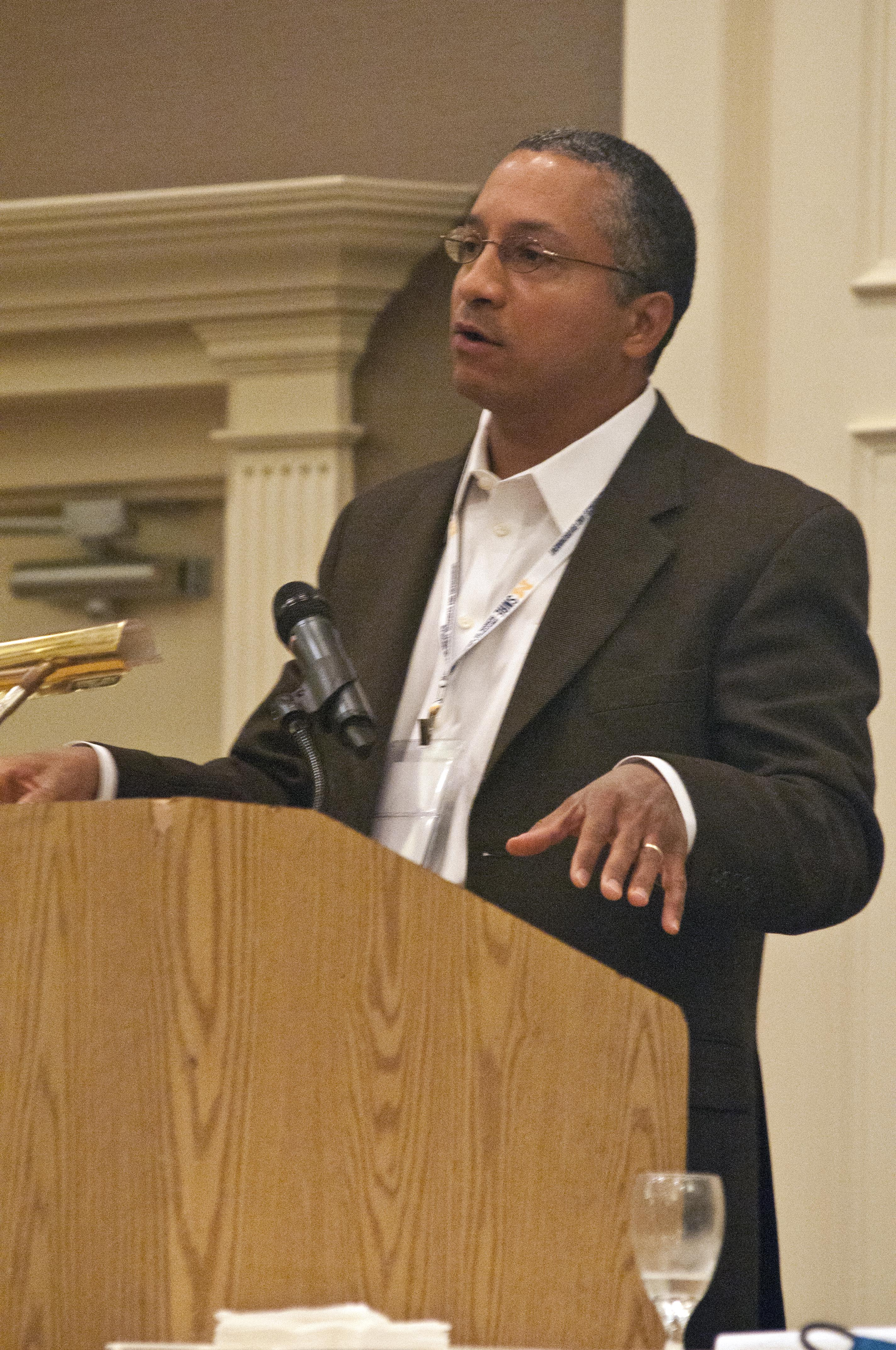 David Pellow, Professor Don Martindale Ednowed Chair, University of Minnesota